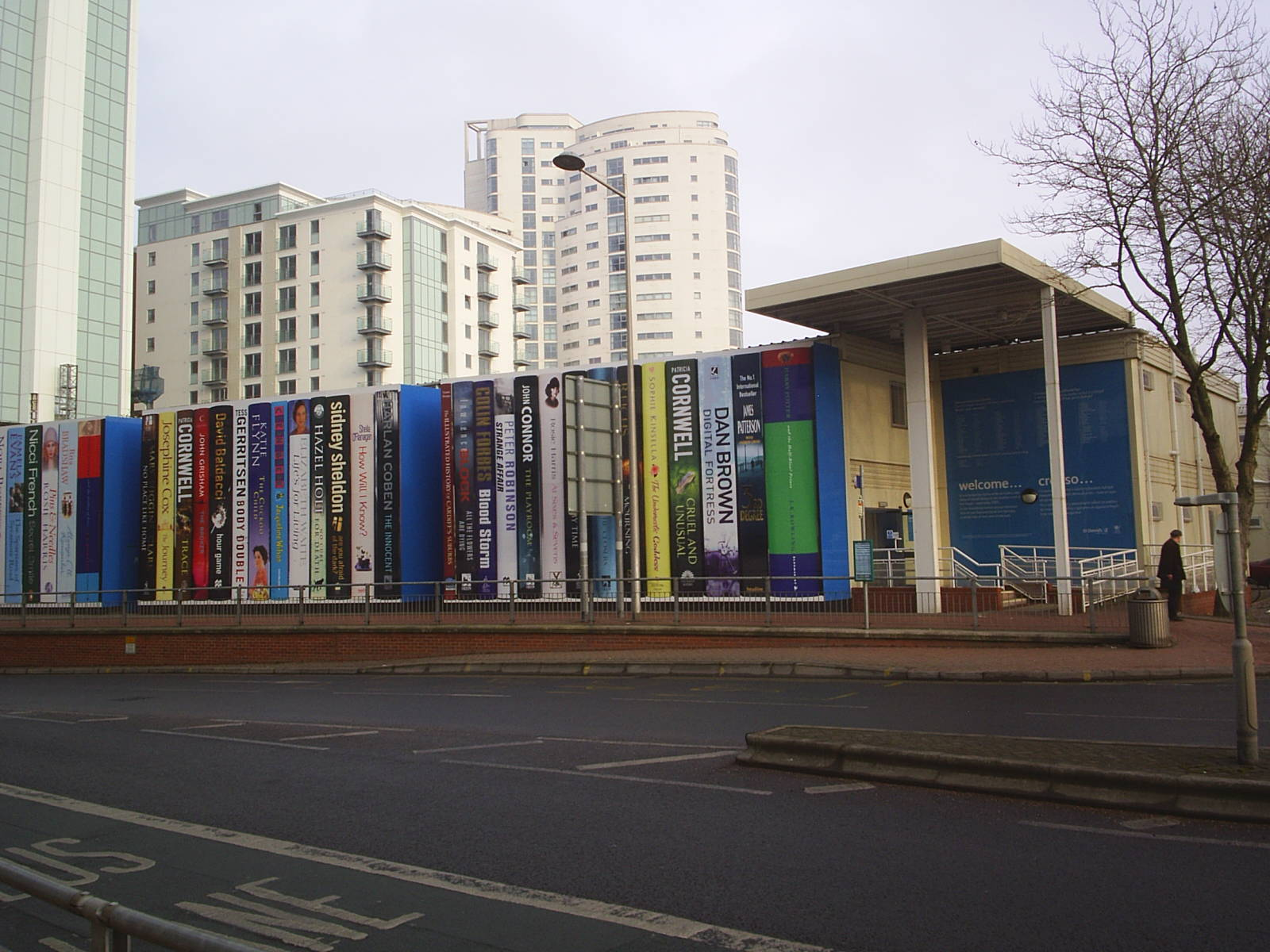 The temporary building used by Cardiff Central Library between September 2006 and February 2009 while the present building was under construction.